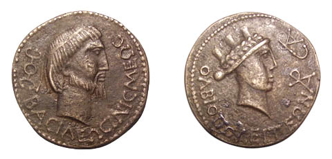 Denarius of Ininthimeus. I A.D. Rare coin. Ininthimeus and Tyche